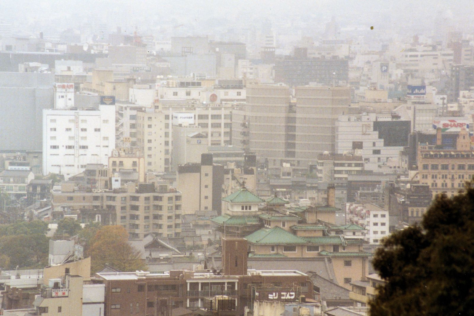 Central Kyoto - seeing west from a building in Higashi-ōji, Higashiyama-ku, Kyoto